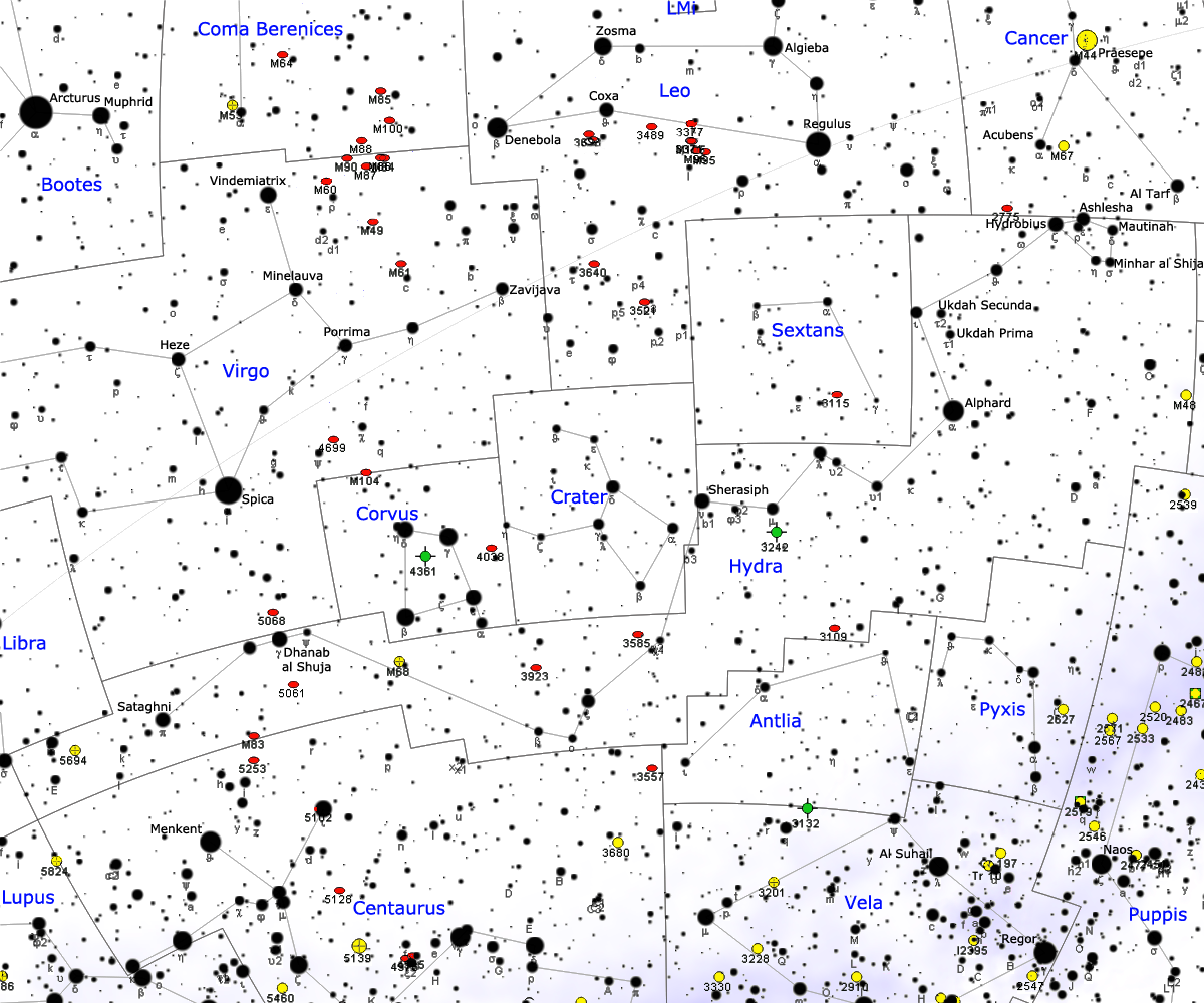 Map of Hydra